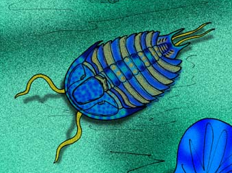 Cropped image of taxon in file name